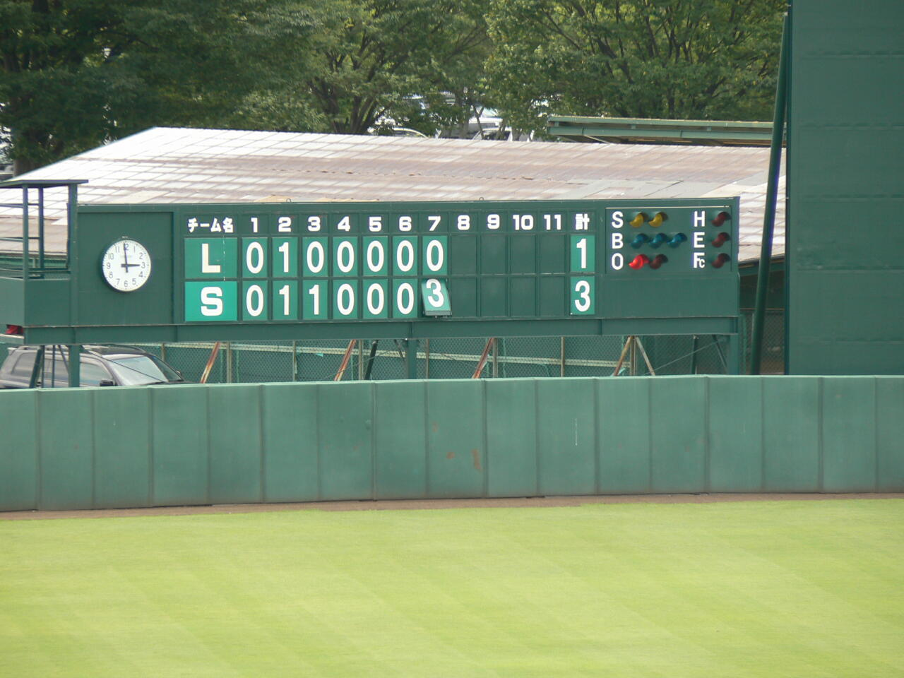 Scoreboard at the Tokyo Yakult Swallows Toda Stadium in Toda City, Saitama Prefecture, Japan